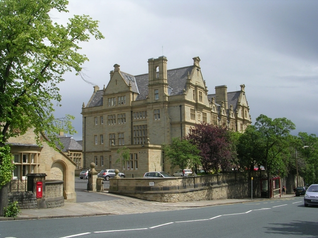 Part of the Halifax Old Royal Infirmary - Free School Lane The site has now been converted into residential accommodation.